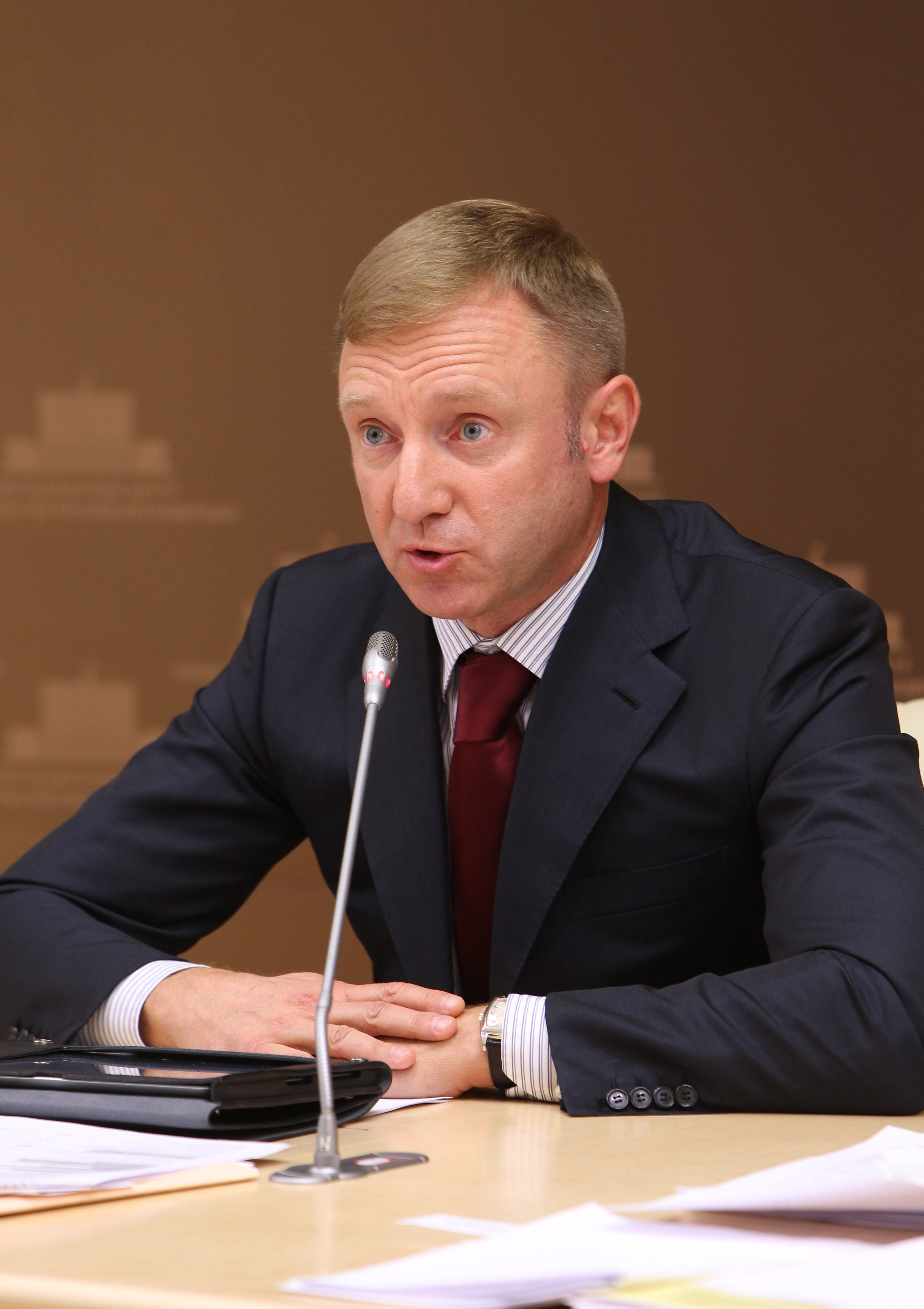 Minister of Education and Science Dmitry Livanov